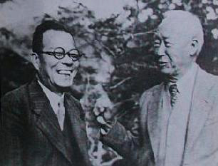 Syngman Rhee and Kim Seon-soo